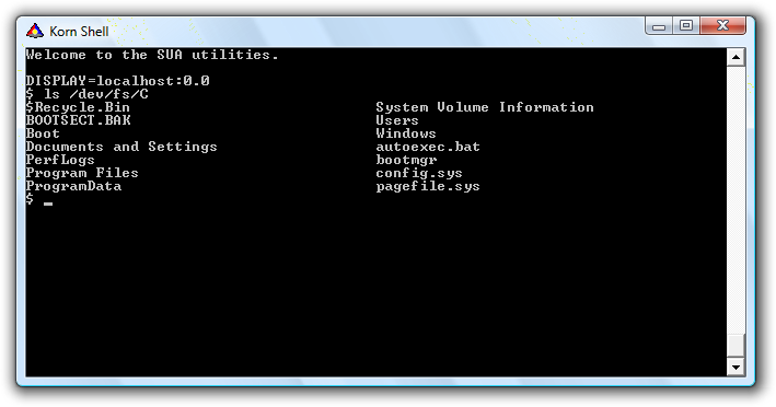 Korn Shell running on Subsystem for UNIX-based Applications on Windows Vista